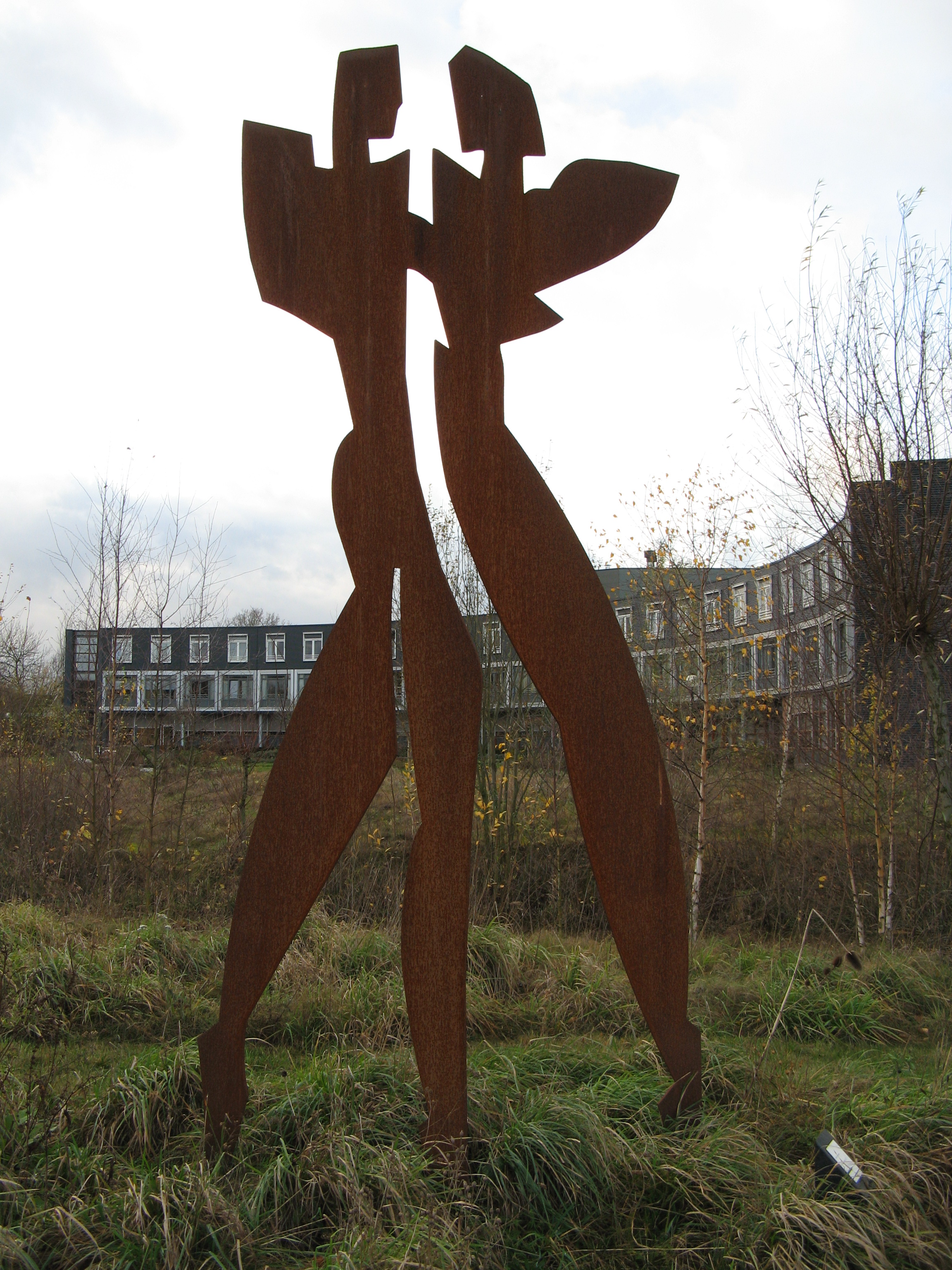 Sculpture "Schattentanz III" by Alfred Gockel in Sint Anthonis, NL